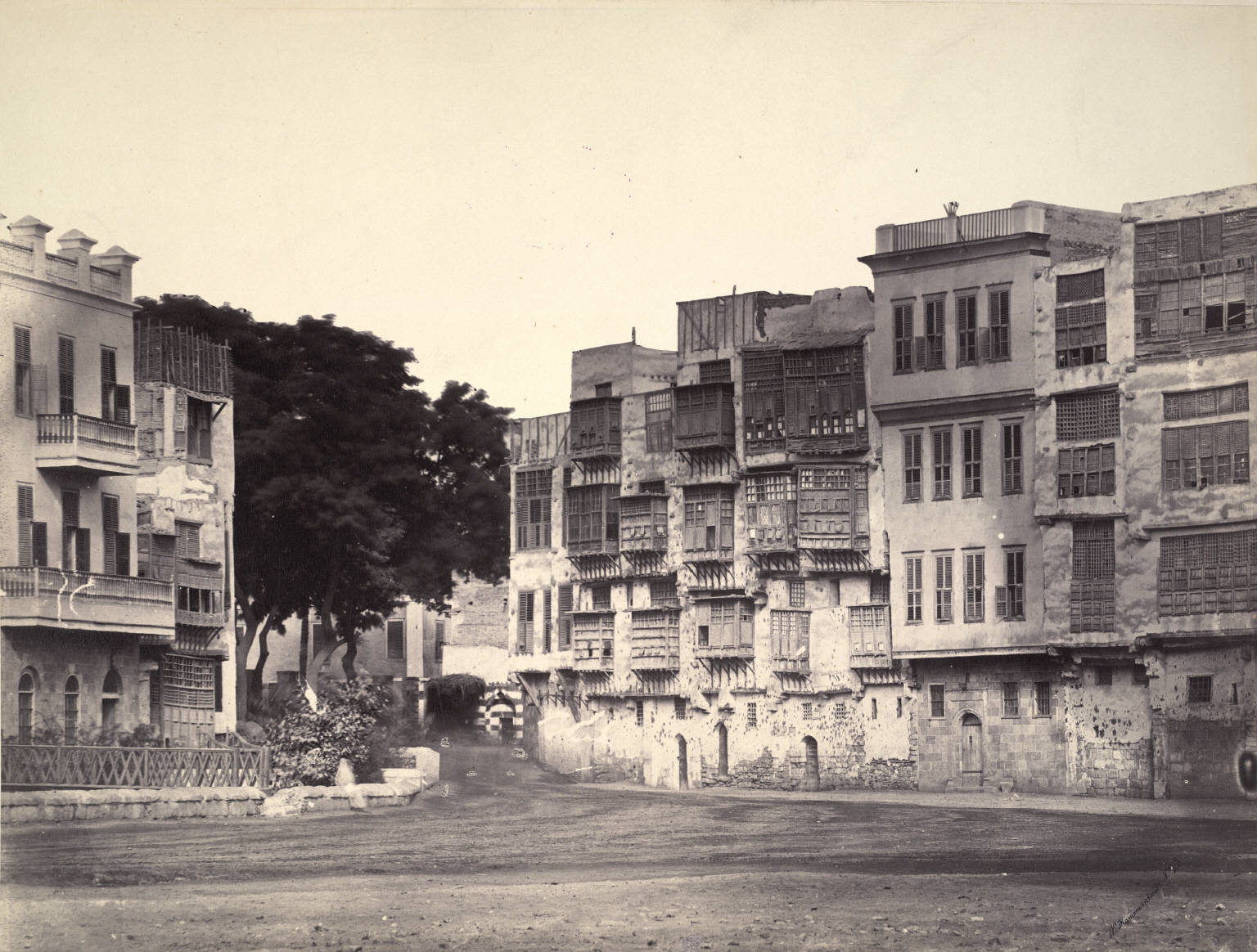 Collection: A. D. White Architectural Photographs, Cornell University Library Accession Number: 15/5/3090.00283 Title: Coptic Houses, Cairo Photographer: Wilhelm Hammerschmidt (German, active 1858-1869) Photograph date: ca. 1860-ca. 1869 Location: Africa: Egypt; Cairo Materials: albumen print Image: 9.3307 x 12.2441 in.; 23.7 x 31.1 cm Provenance: Gift of Andrew Dickson White Persistent URI: There are no known U.S. copyright restrictions on this image. The digital file is owned by the Cornell University Library which is making it freely available with the request that, when possible, the Library be credited as its source. We had some help with the geocoding from Web Services by Yahoo!